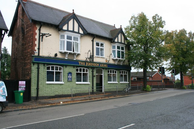 The Johnson Arms Ex Shipstones pub on Abbey Street, Dunkirk. Built by Frederick Ball, 1912